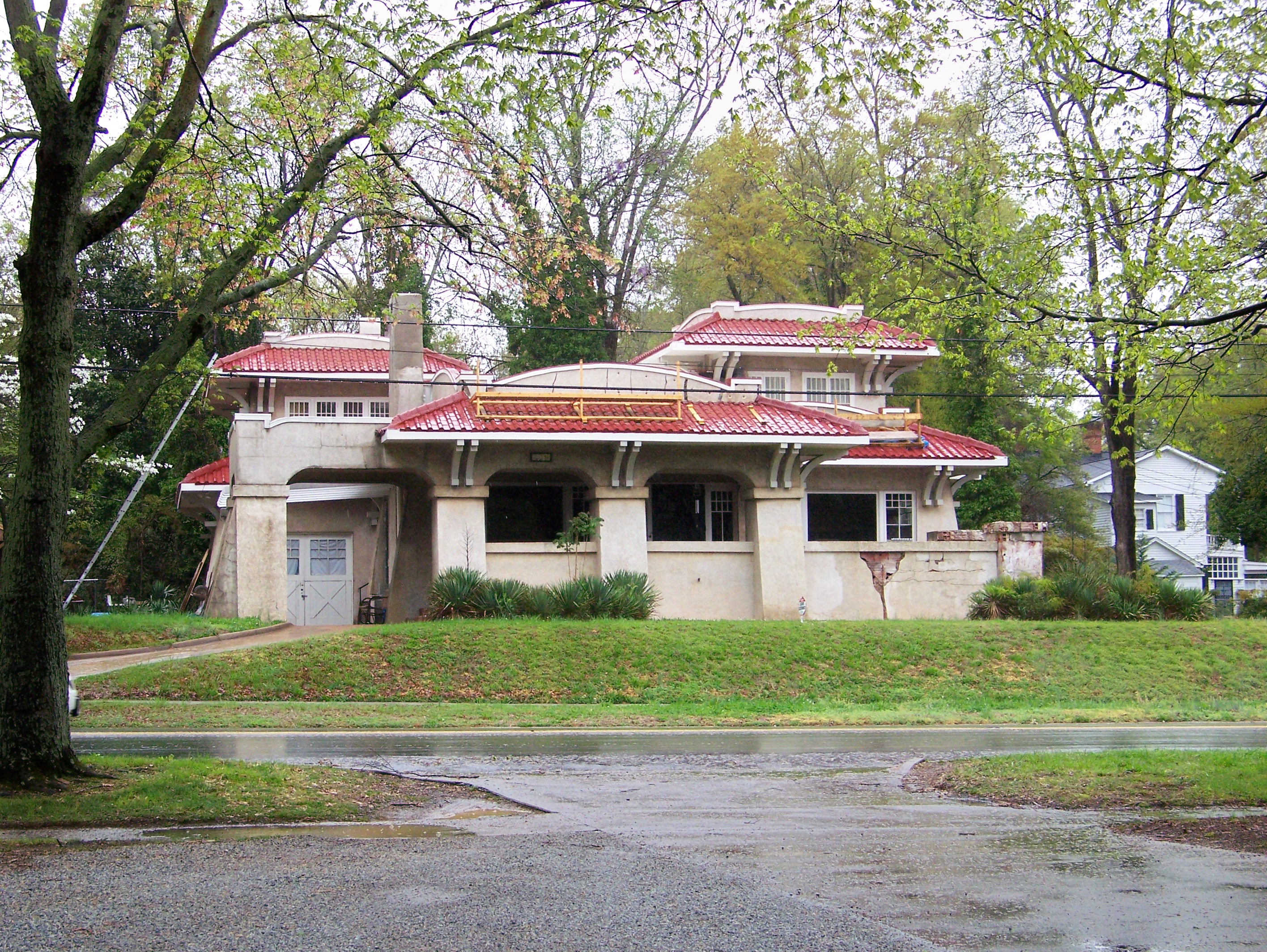 Contributing Property to both the West Warren Street Historic District and the Central Shelby Historic District